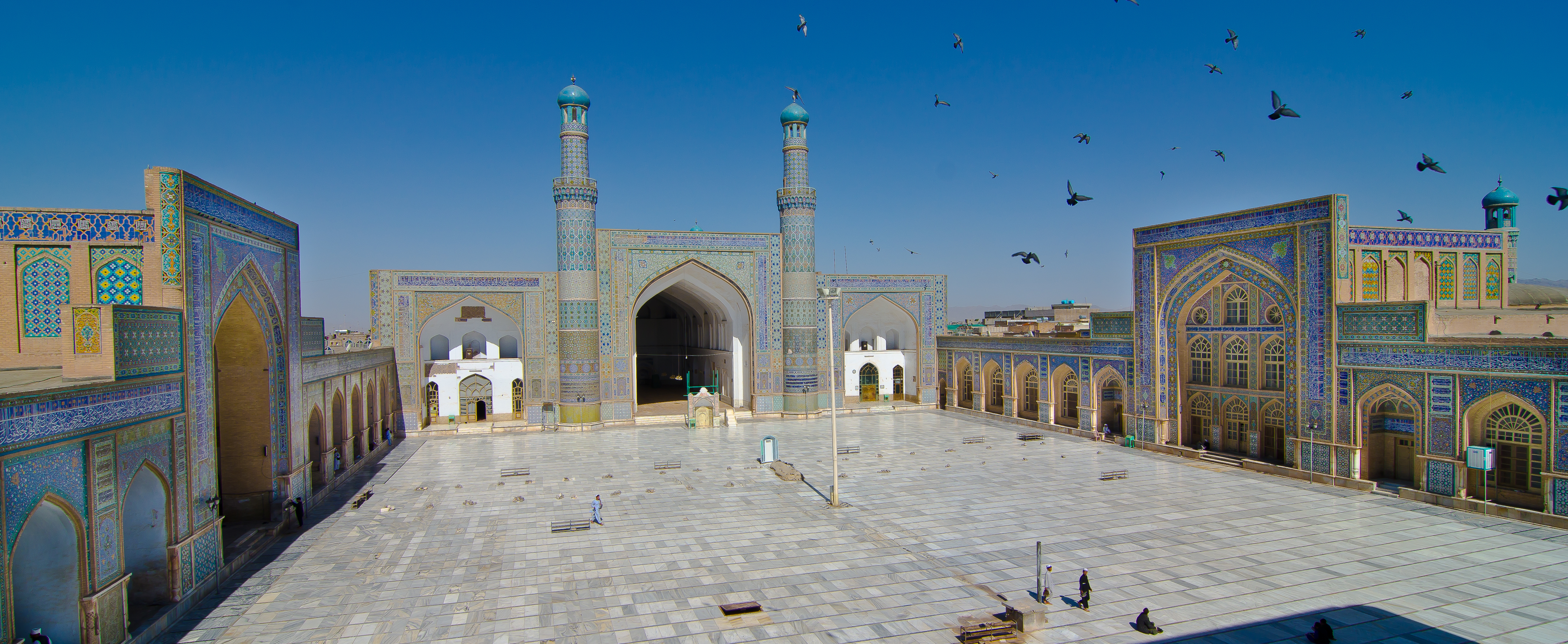 Jumah Mosque of Herat, Aghanistan. View from the Eastern roof top.